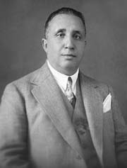 Ahmet Mithat Bey (Kalabalık)